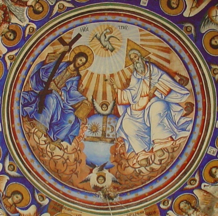 The Holy Trinity an Orthodox wall painted icon at the ceiling of the entrance (πρόστωον) Vatopedion Monastery at Agion Oros (Mount Athos), Greece.